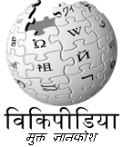 Logo of the Marathi Wikipedia